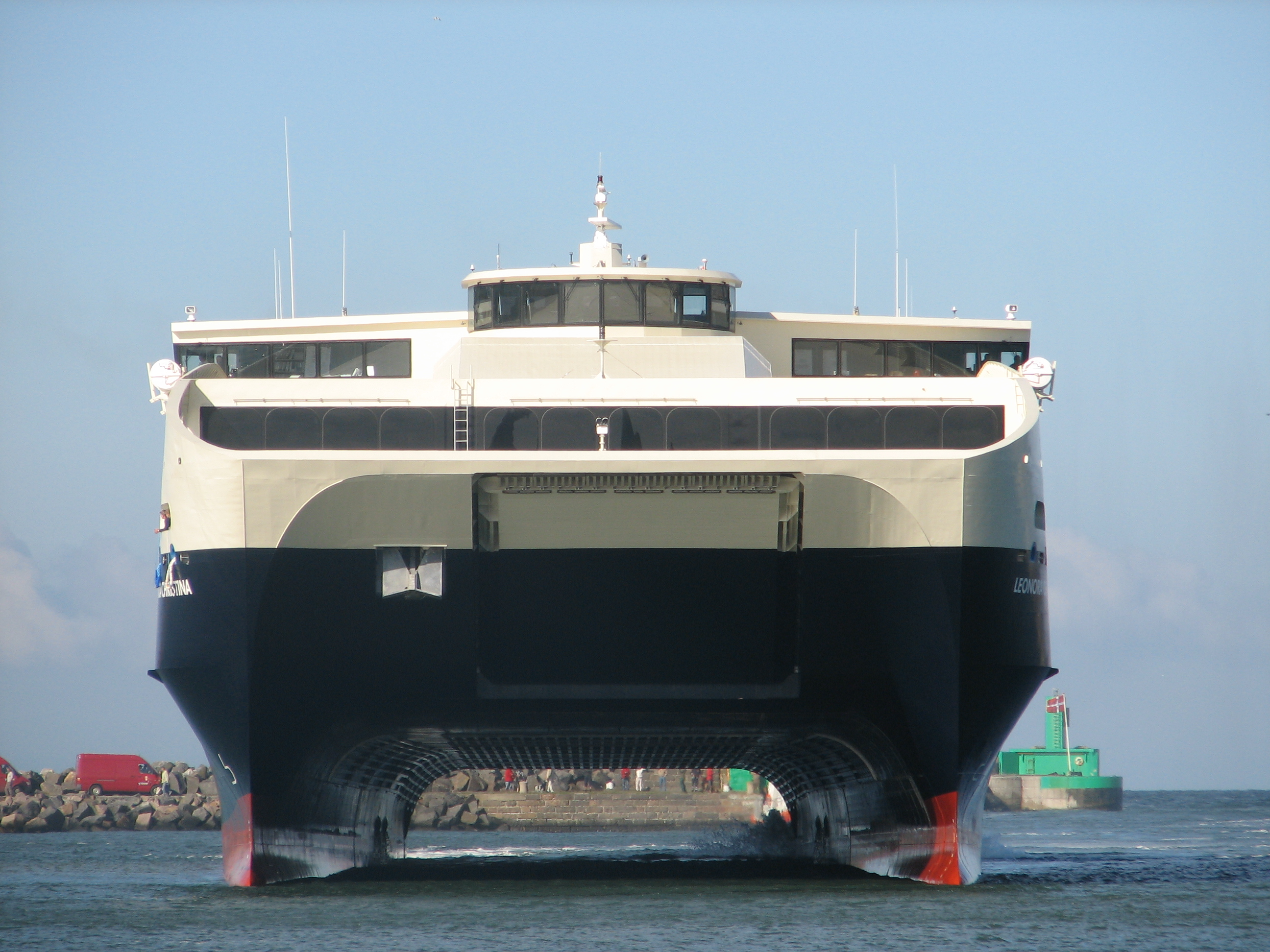 Leonora Christina in the harbour of Rønne